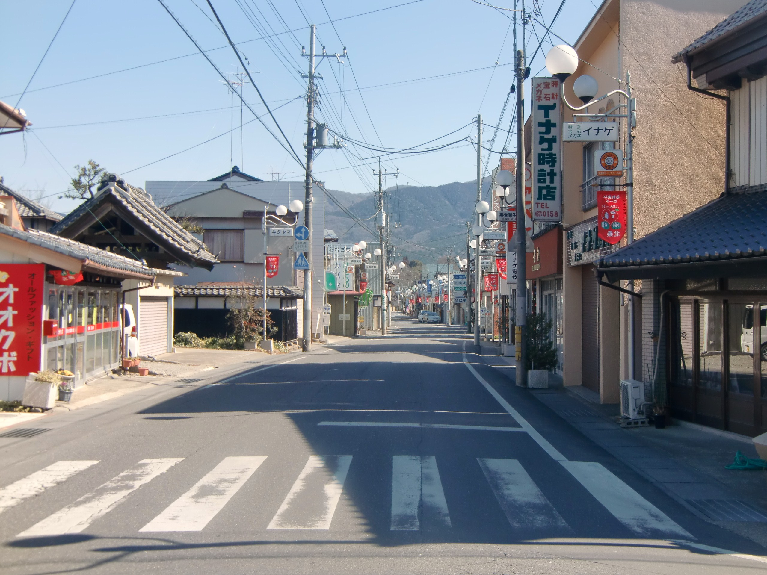 Hōjō Shōtengai (or shopping mall, shopping street) in Hōjō, Tsukuba city, Ibaraki prefecture, Japan.